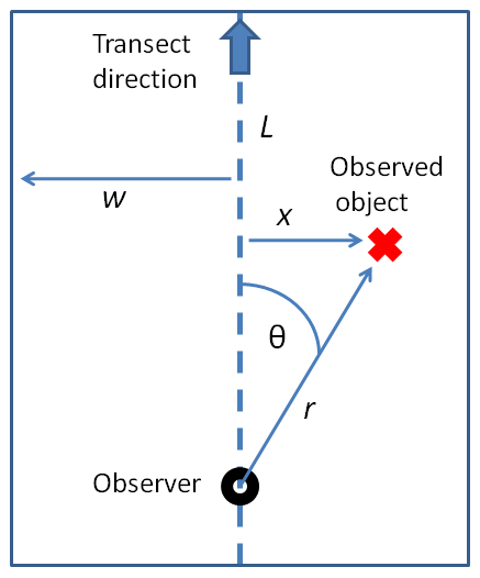 Diagram of basic distance sampling methodology using line transects. Annotation follows Buckland et al. (2001), Introduction to Distance Sampling.